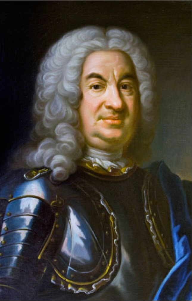 Portrait of Göran Rosenhane (1678–1754)